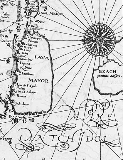 Detail map Bartholomeo de Lasso